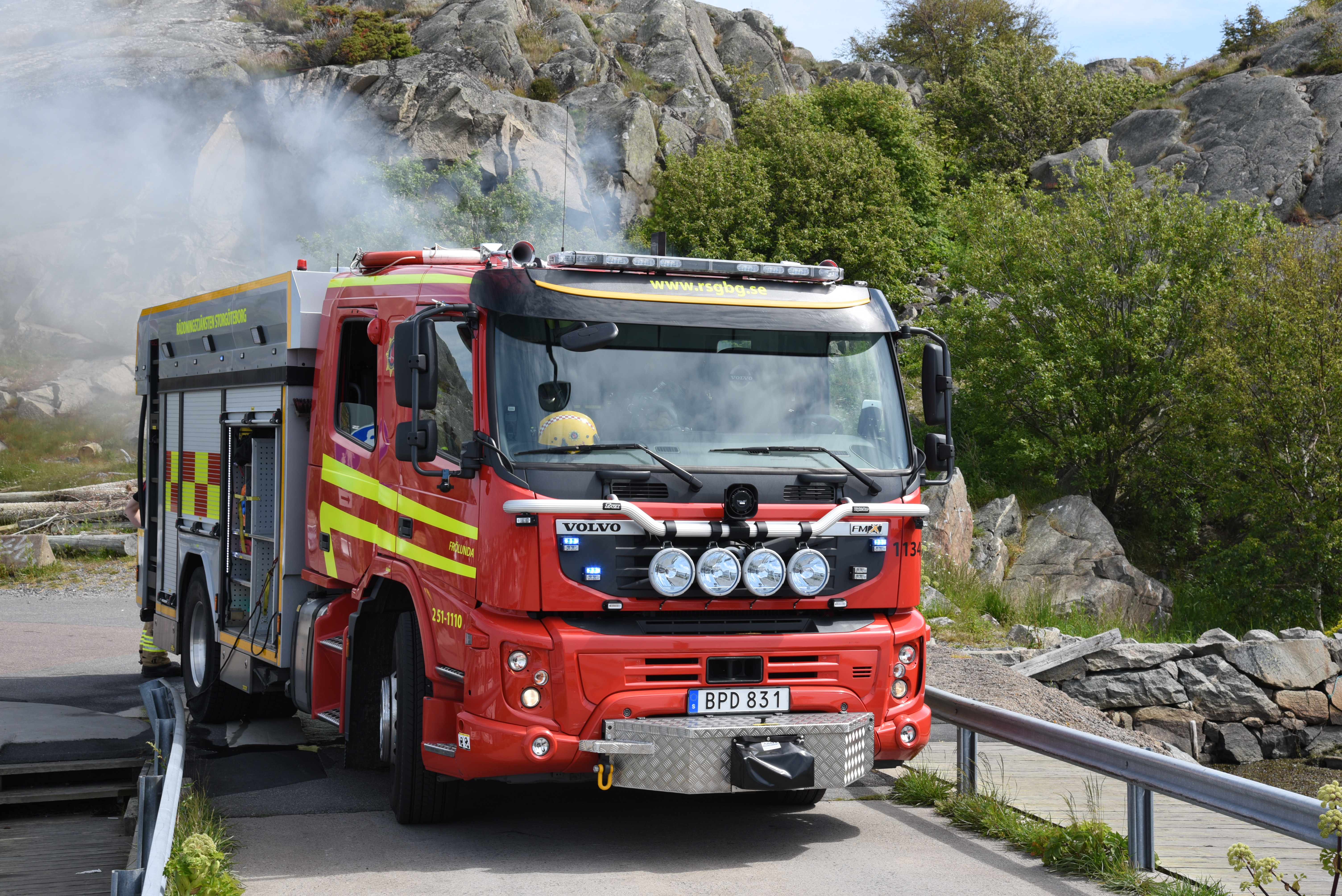 The fire brigade of Göteborg at a container fire at Saltholmen.